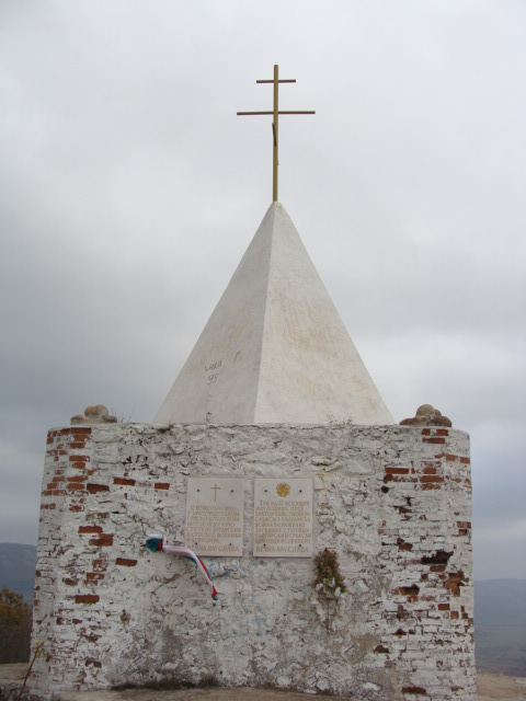 Neshkov peak in Dimitrovgrad/Tzaribrod, Serbia